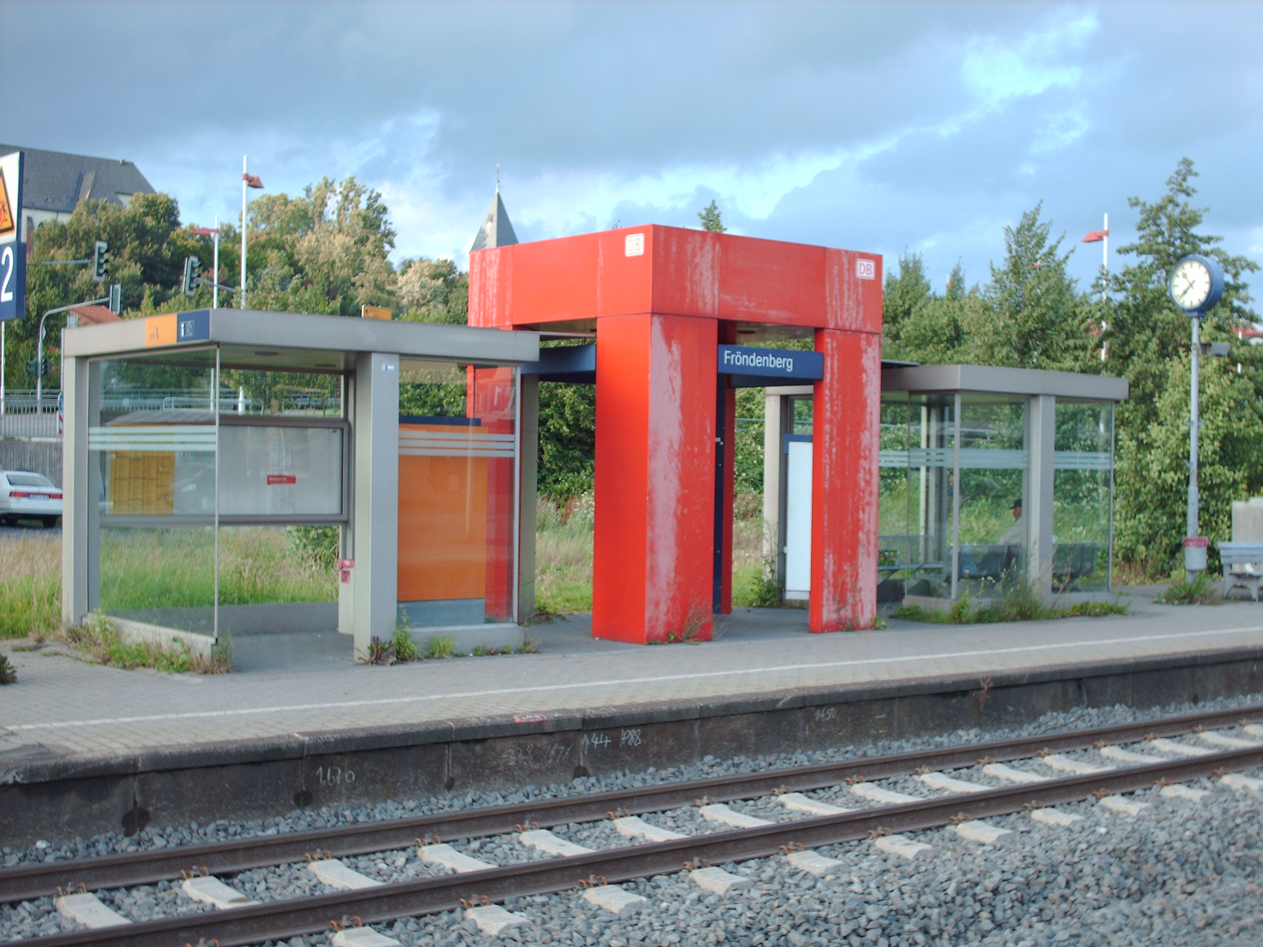 Fröndenberg station, Fröndenberg, Germany check usage